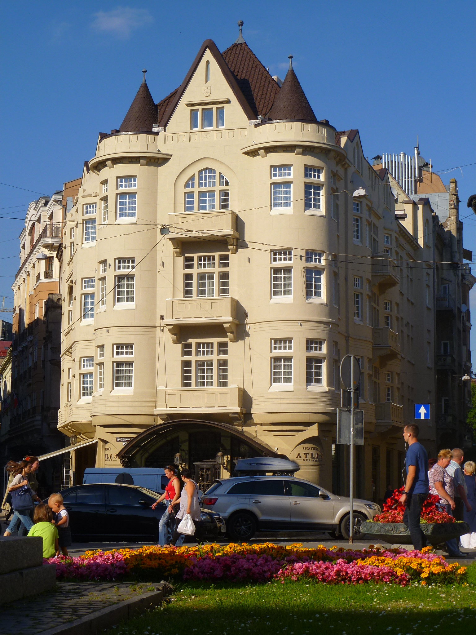 The former Scottish Café building now hotel "Atlas Deluxe" in Lviv, Shevchenko Ave.